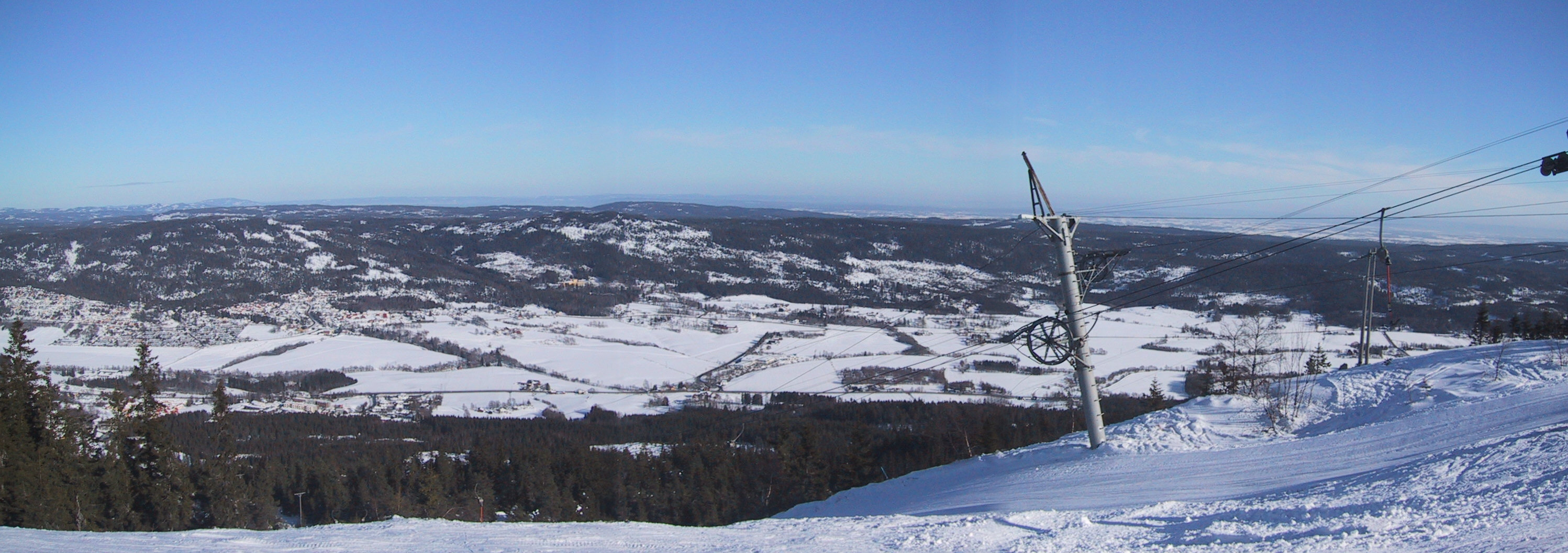 View to the east from Varingskollen, Hakadal, Norway